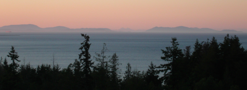 Image of Discovery Bay, taken from Gardiner, Washington, facing north. The eastern tip of Protection Island (Violet Point) is just visible on the left. The San Juan Islands are prominent across the Strait of Juan de Fuca; the large hills on the left are on Orcas Island. To the right are Cypress Island, Lummi Island, and other eminences along the Washington coast. The central gap between the island groups is Rosario Strait, where Mount Blanshard and a companion peak in BC can be seen. Photograph by Trevor Hanson, Gardiner, Washington.